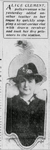 Alice Clement in the Chicago Examiner, January 11, 1915